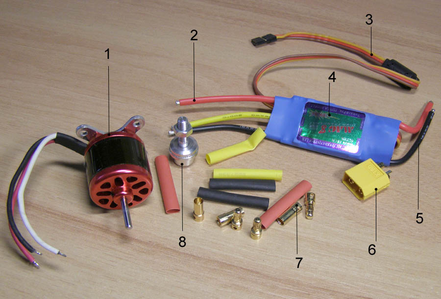 ESC systems for brushed motors